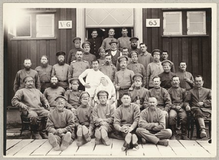 Russian POWs in Horserød Camp